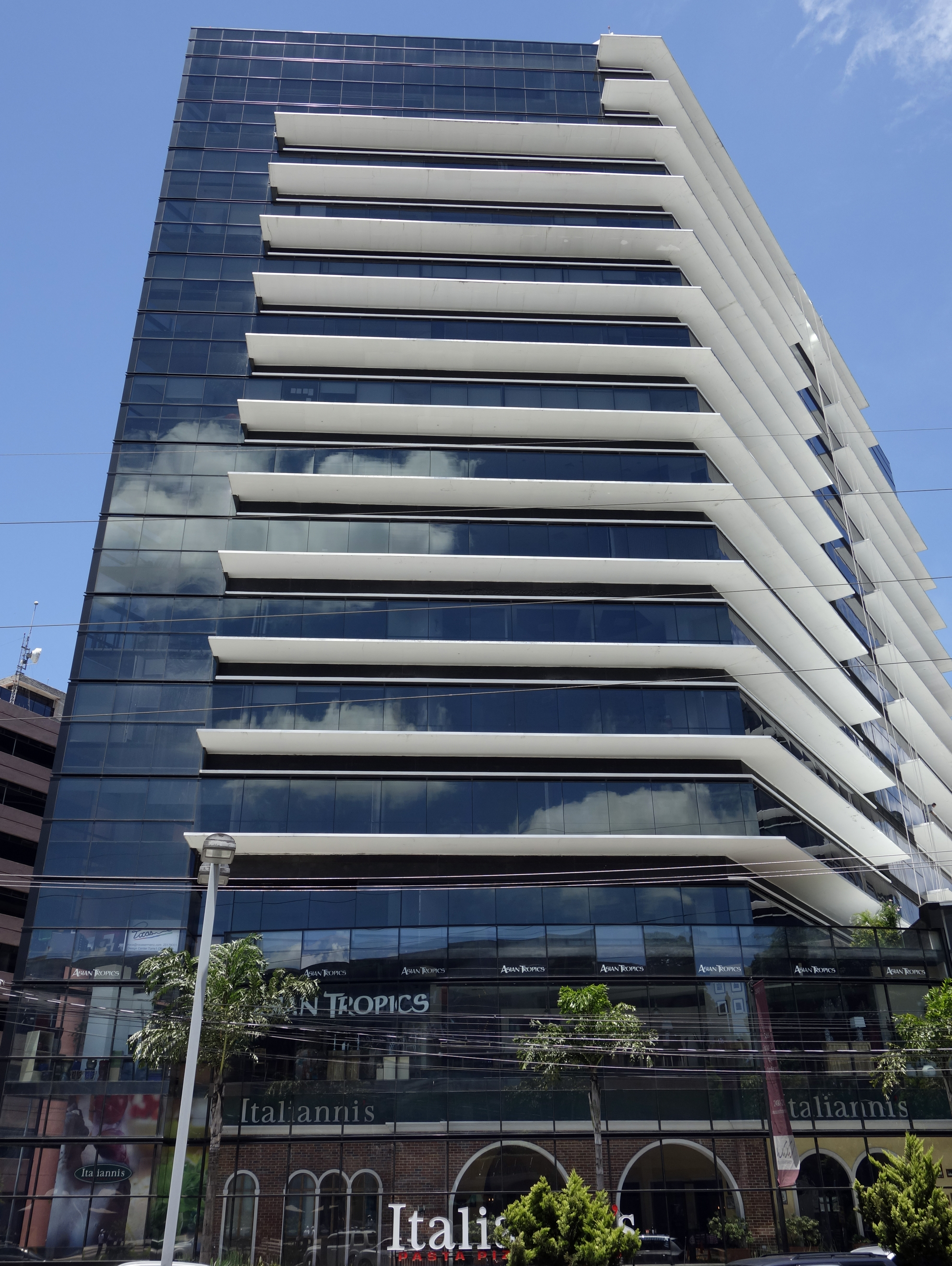 Design Center building in Guatemala City Zona 10. Built between 2008 and 2011.